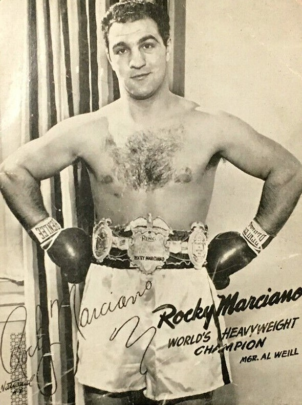 Black & White postcard of World Heavyweight Champion Rocky Marciano, circa 1953